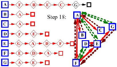 Dry run Depth-first search Algorithm in Graph, step 18